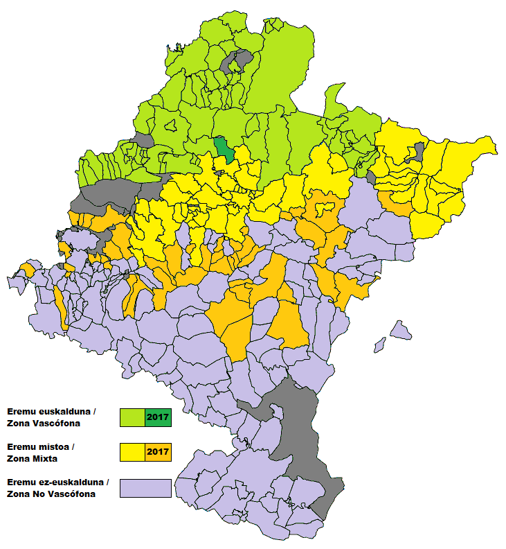 Official linguistic distribution in Navarra according to the following law: Ley foral 18/86, de 15 de diciembre de 1986, del Vascuence.